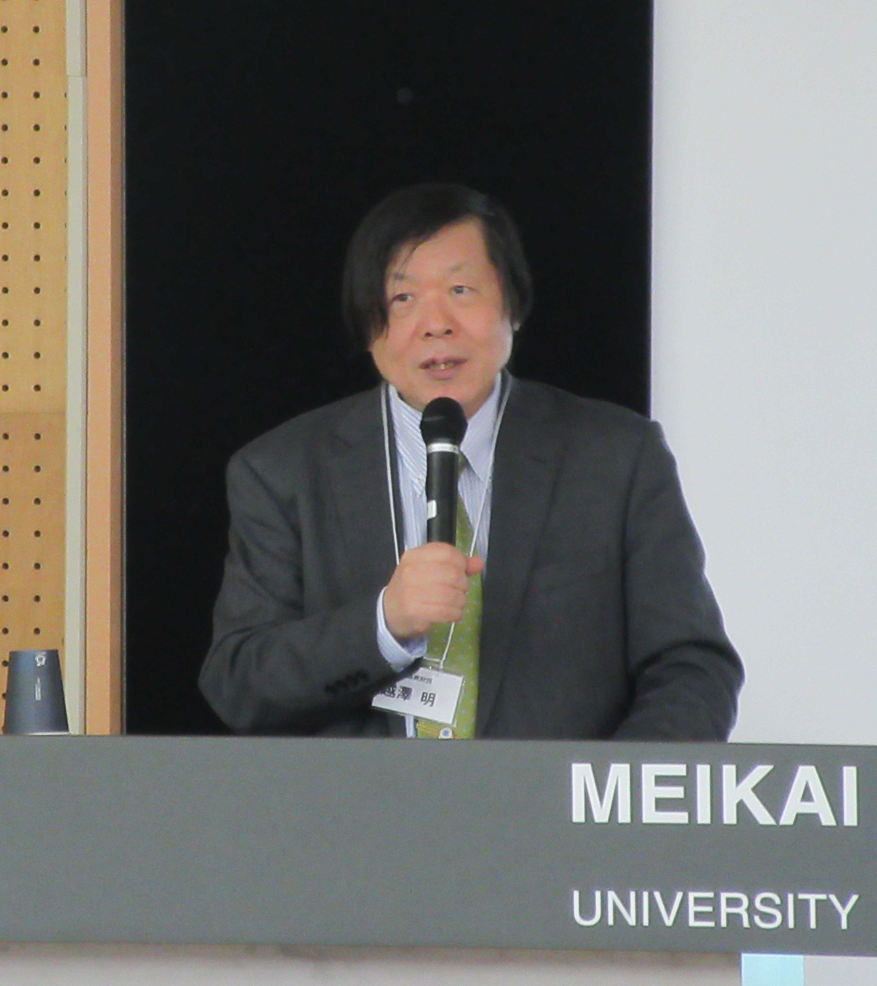 Professor Akira Koshizawa. The photo was taken at a symposium "Olympic and Real Estate" at the 31st Annual Meeting of the Japan Association for Real Estate Sciences (JARES) held in Meikai University, Urayasu, Chiba, Japan. I have been permitted to publish this photo from the organizer, the secretary of JARES.